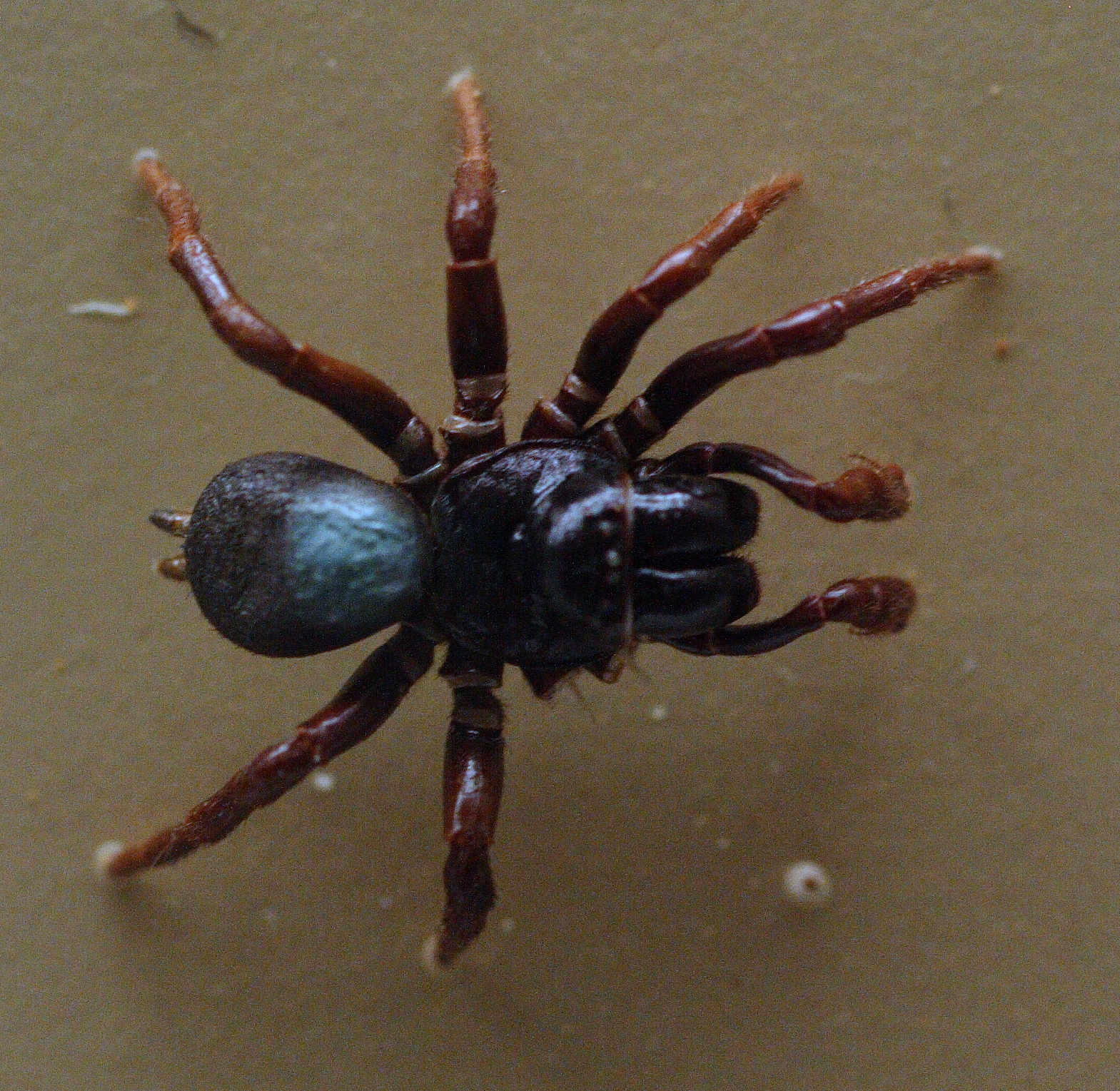 Specimen in the Australian Museum spider display.